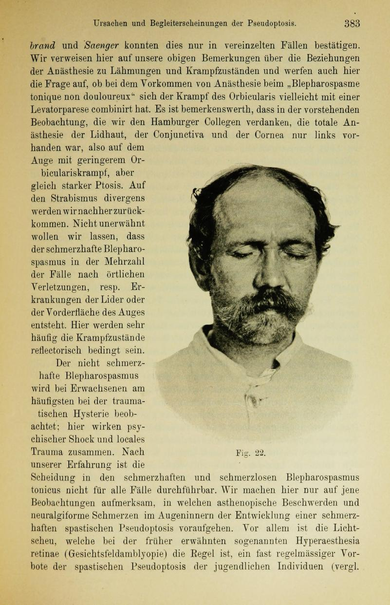 Binswanger (1904) Die Hysterie p.379 n.20, reused in Szondi test in serie 1 image 8.